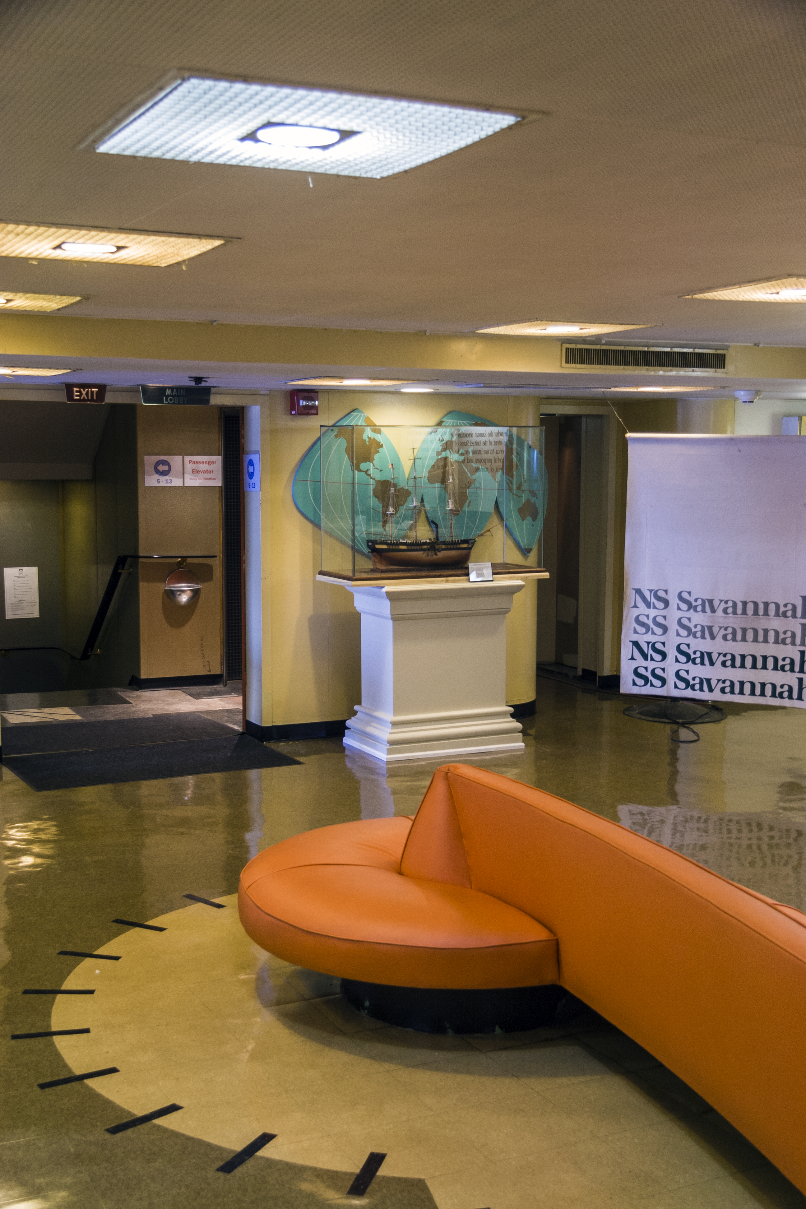 The entry lounge and main stairway aboard the NS Savannah, Baltimore, Maryland, USA